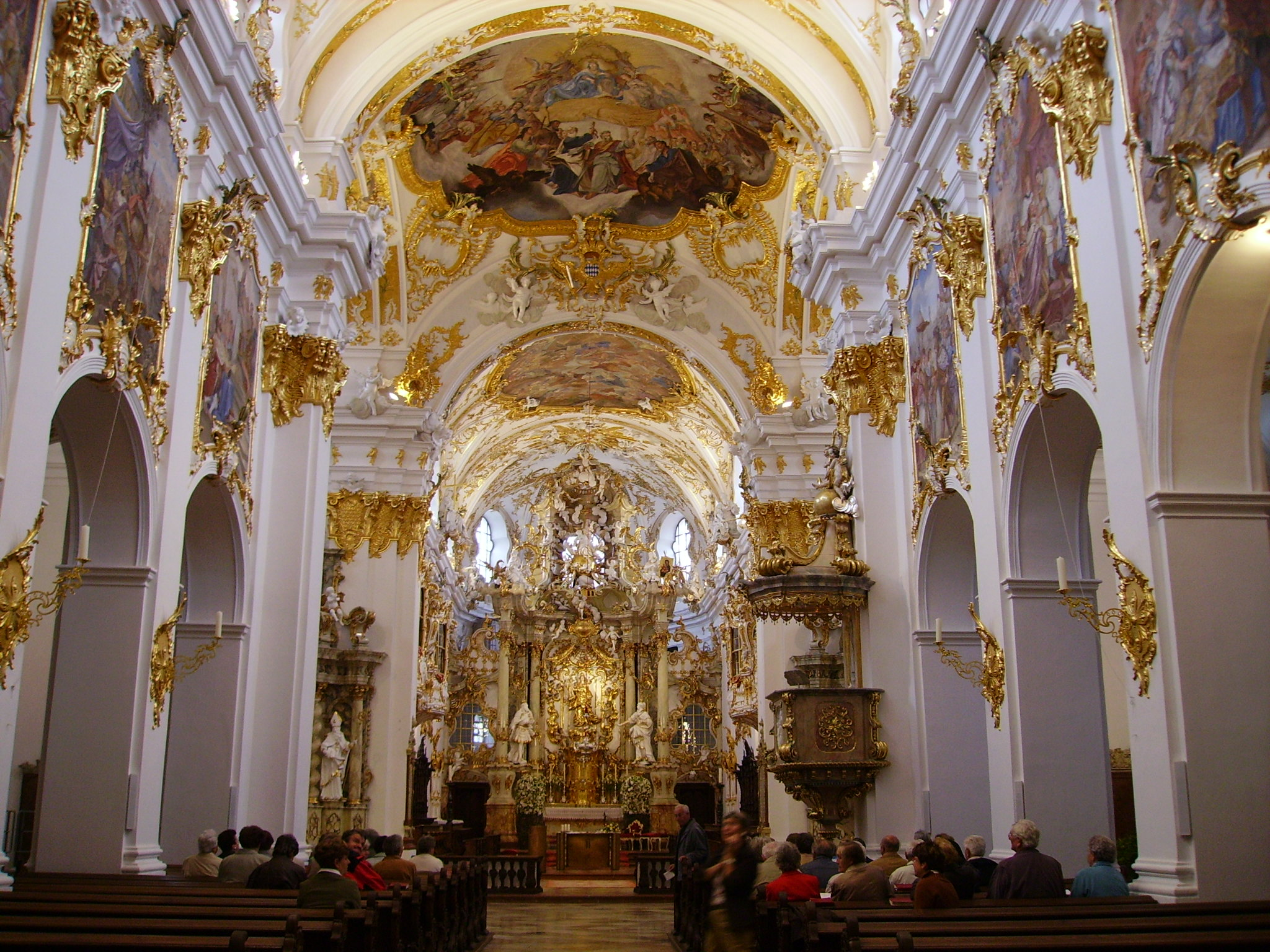 Nave of the Basilica of Our Lady to the Old Chapel, Regensburg